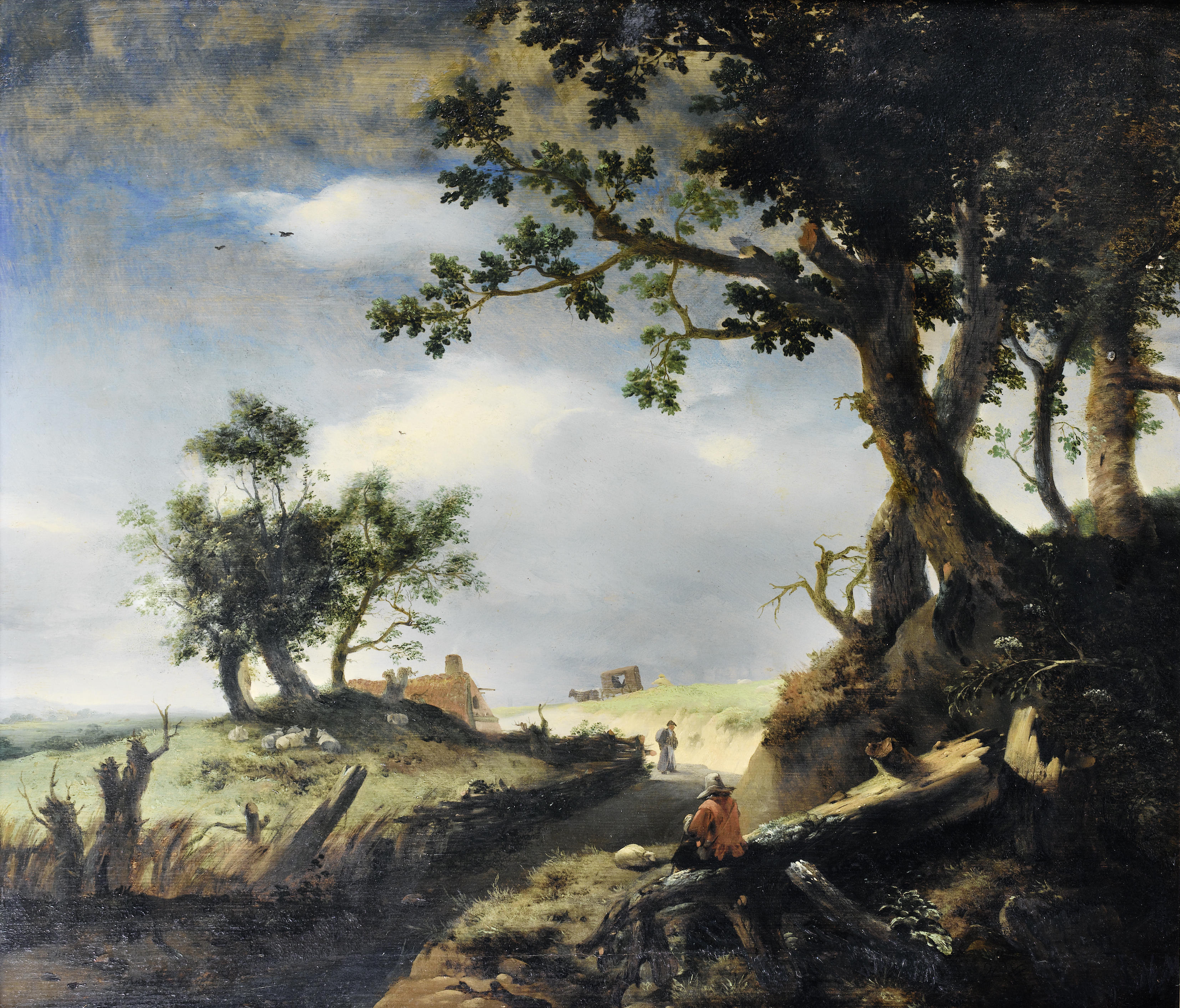 A traveller and his dog resting beside a country path